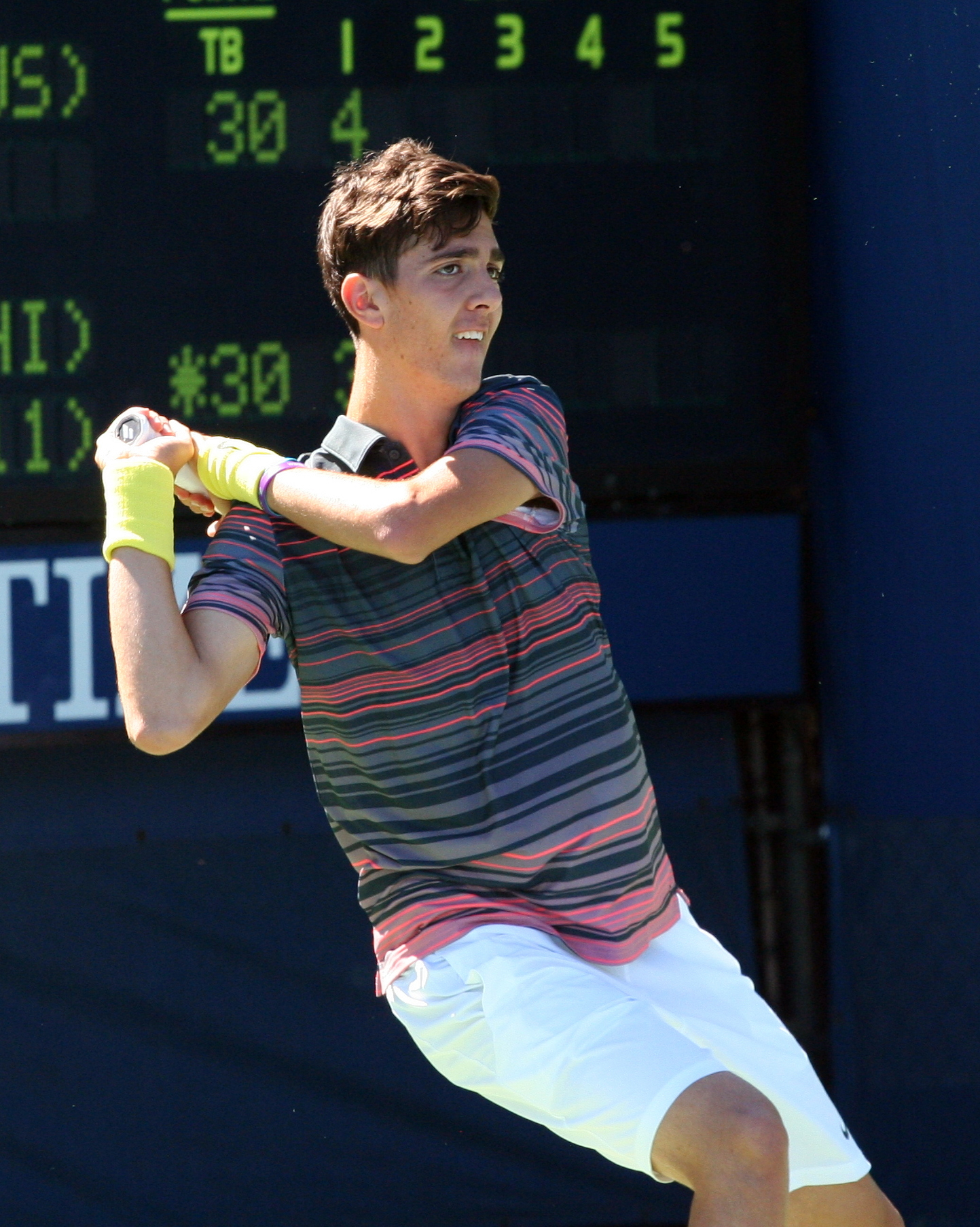 Wednesday, Sept. 4, 2013